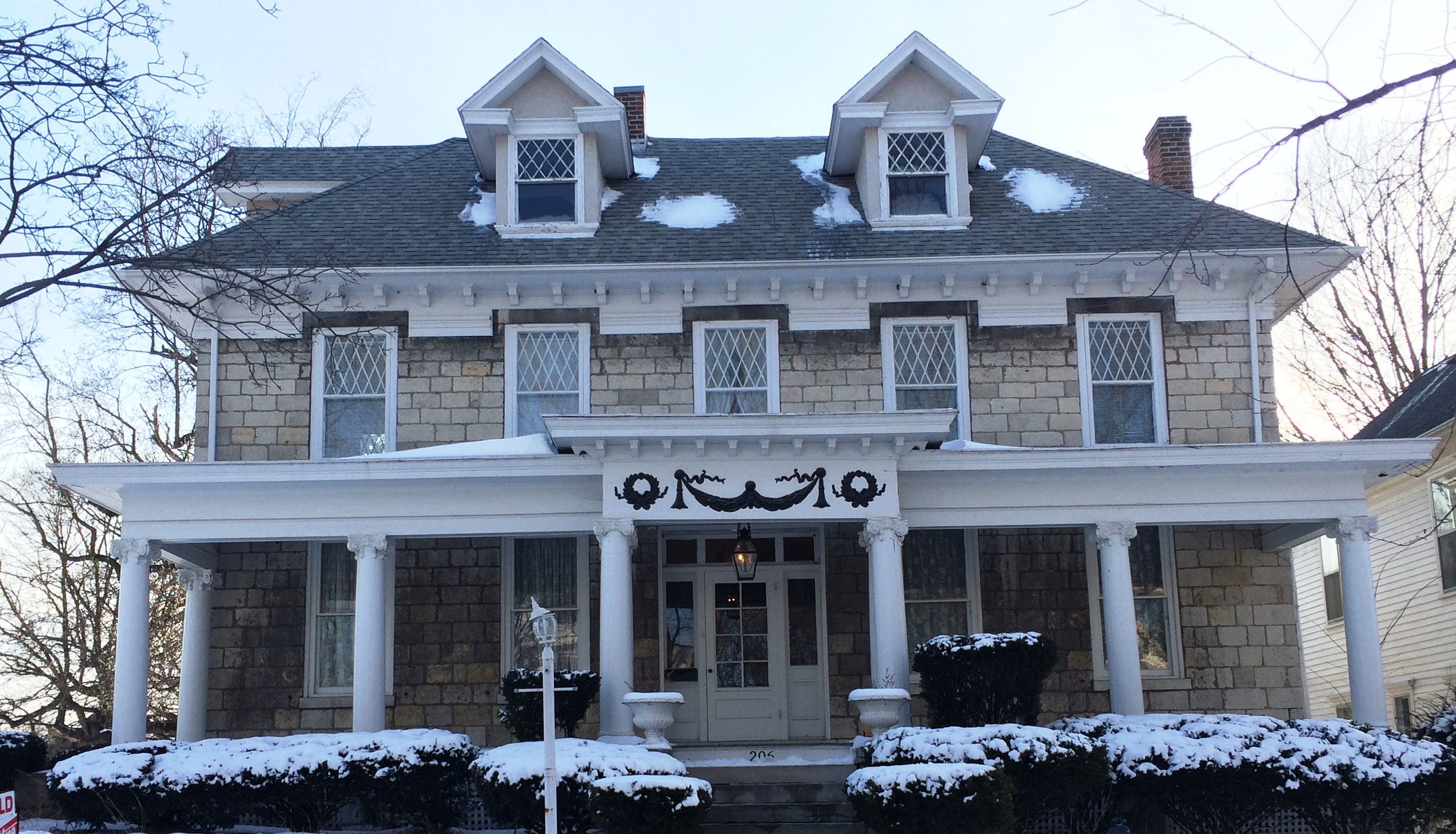 Front View - Gen. Samuel R. Curtis House